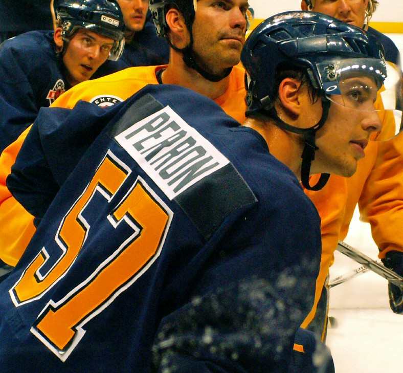 David Perron at the 2008 Blues FanFest.